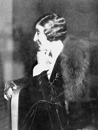 Photograph of Henry Handel Richardson taken by Howard and Joan Coster in 1945 and uploaded from National Archives of Australia ([1])